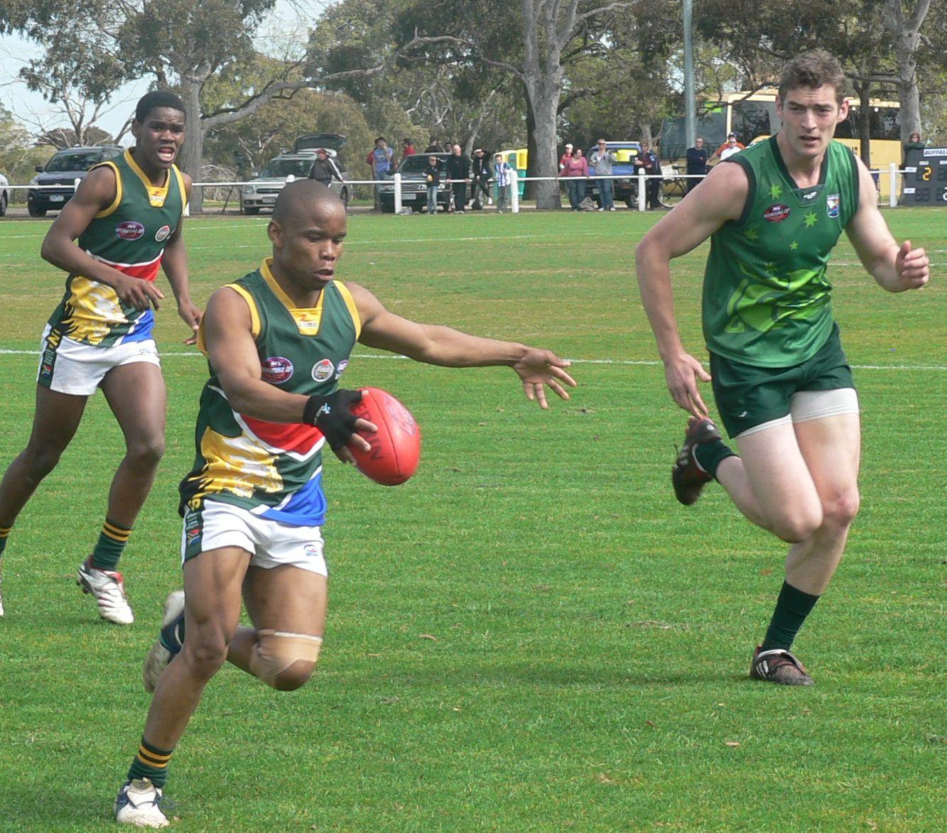 South African player executes a drop punt kick during a match against Ireland in the 2008 Australian Football International Cup